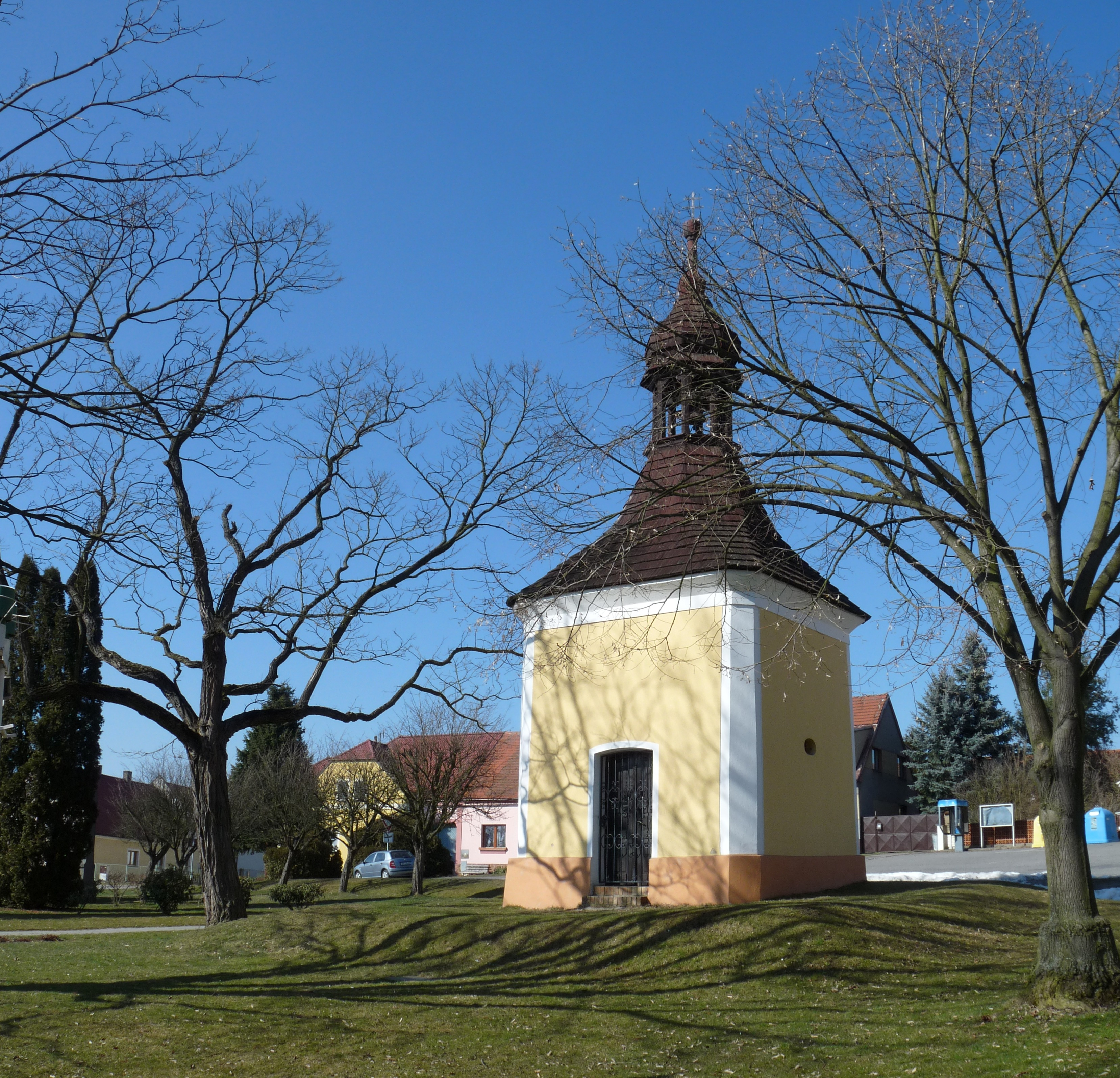 Virgin Mary Chapel in the village of Olešník, České Budějovice District, Czech Republic.